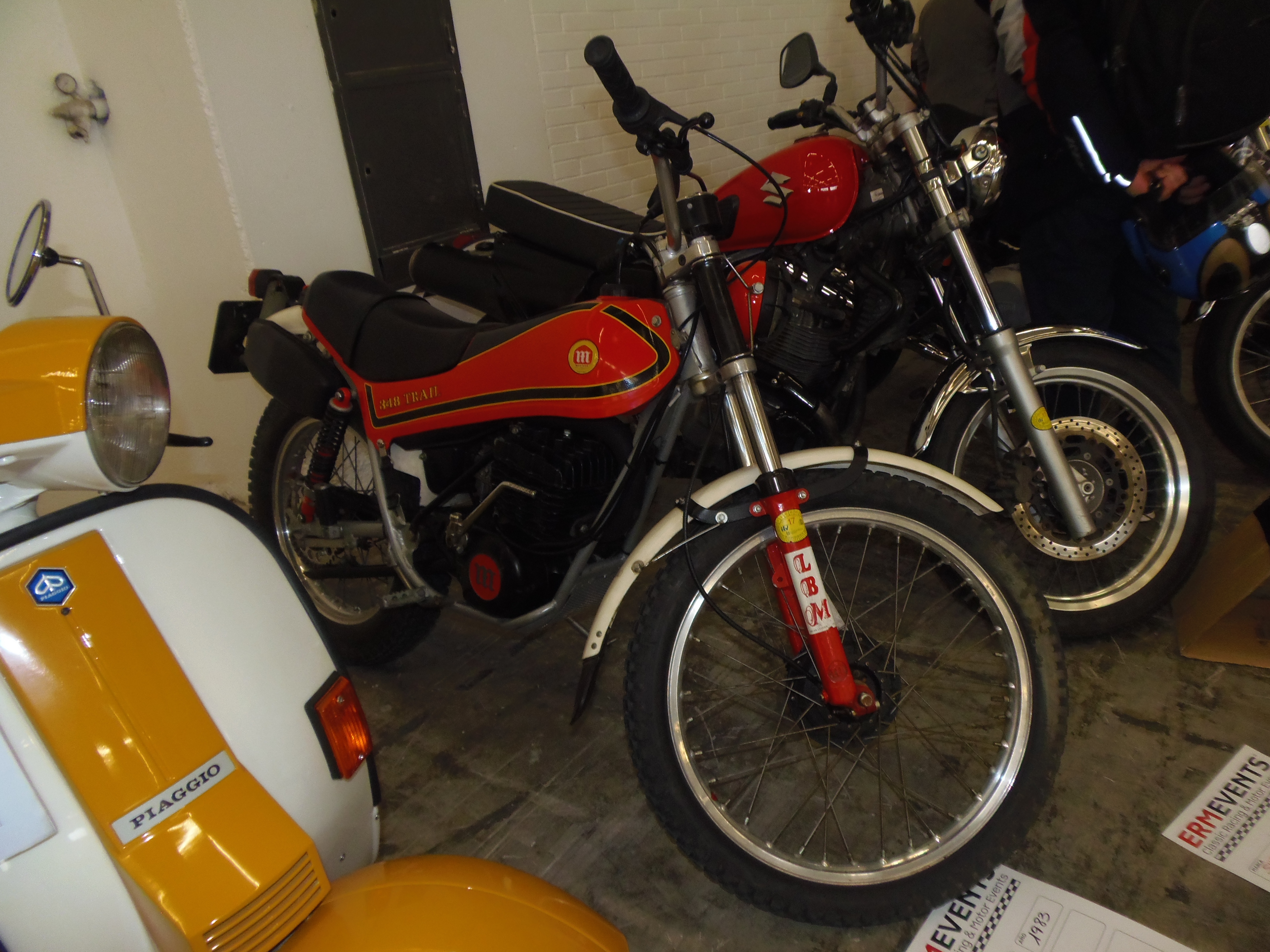 In red an black: Montesa Cota 348 Trail, 1983